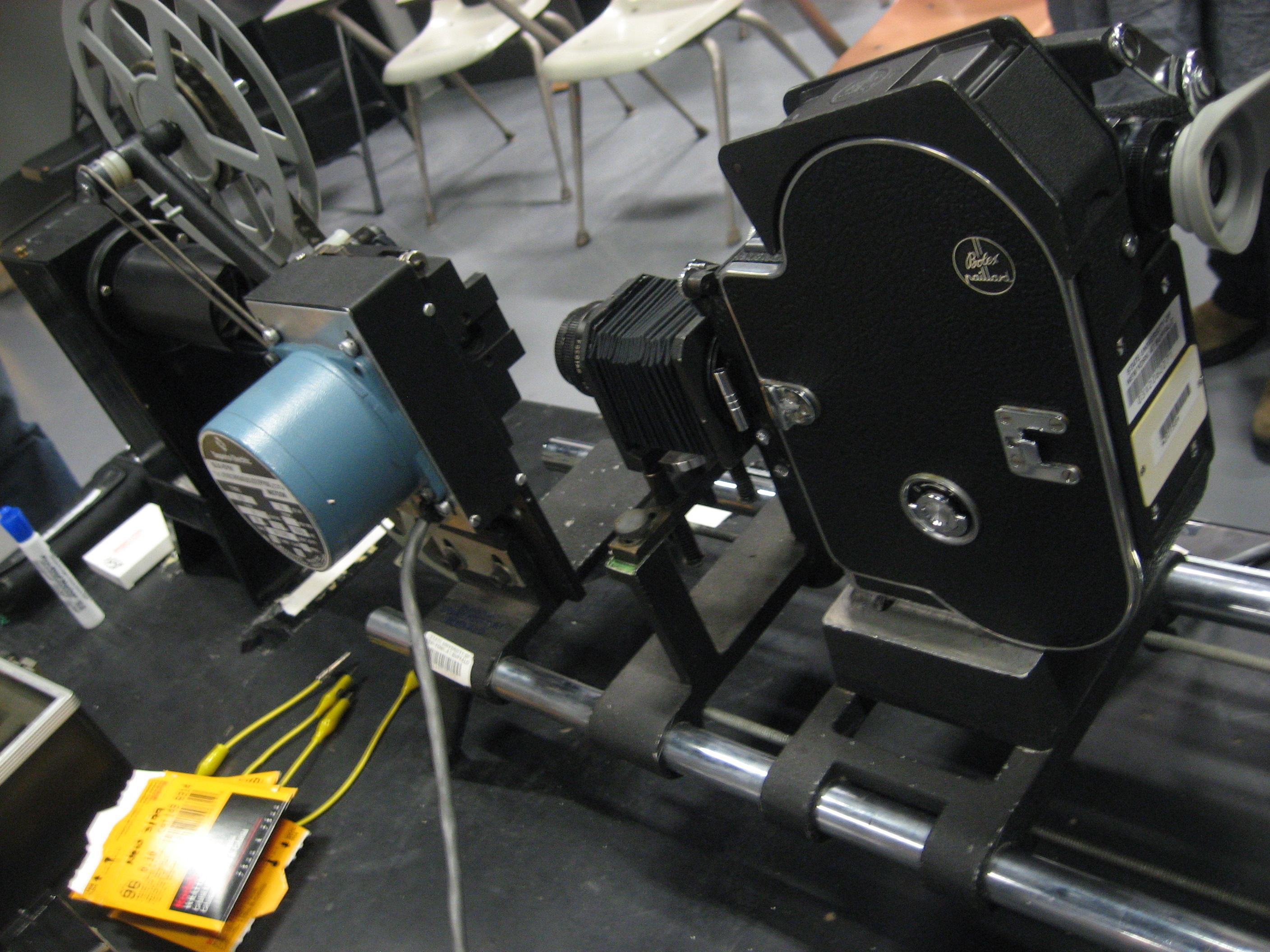 Close up of camera and projector of the University at Buffalo's Dept. of Media Study optical printer